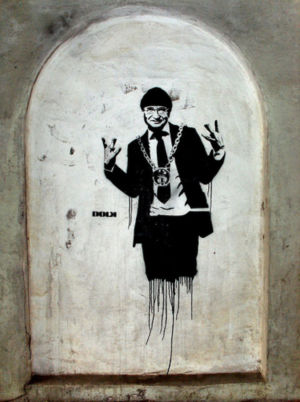 Dolk - Herman Friele